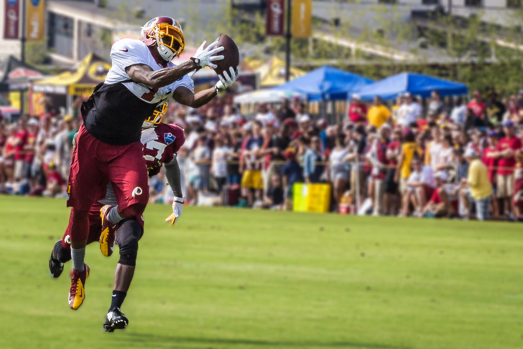 DeSean Jackson at 2014 Redskins training camp.